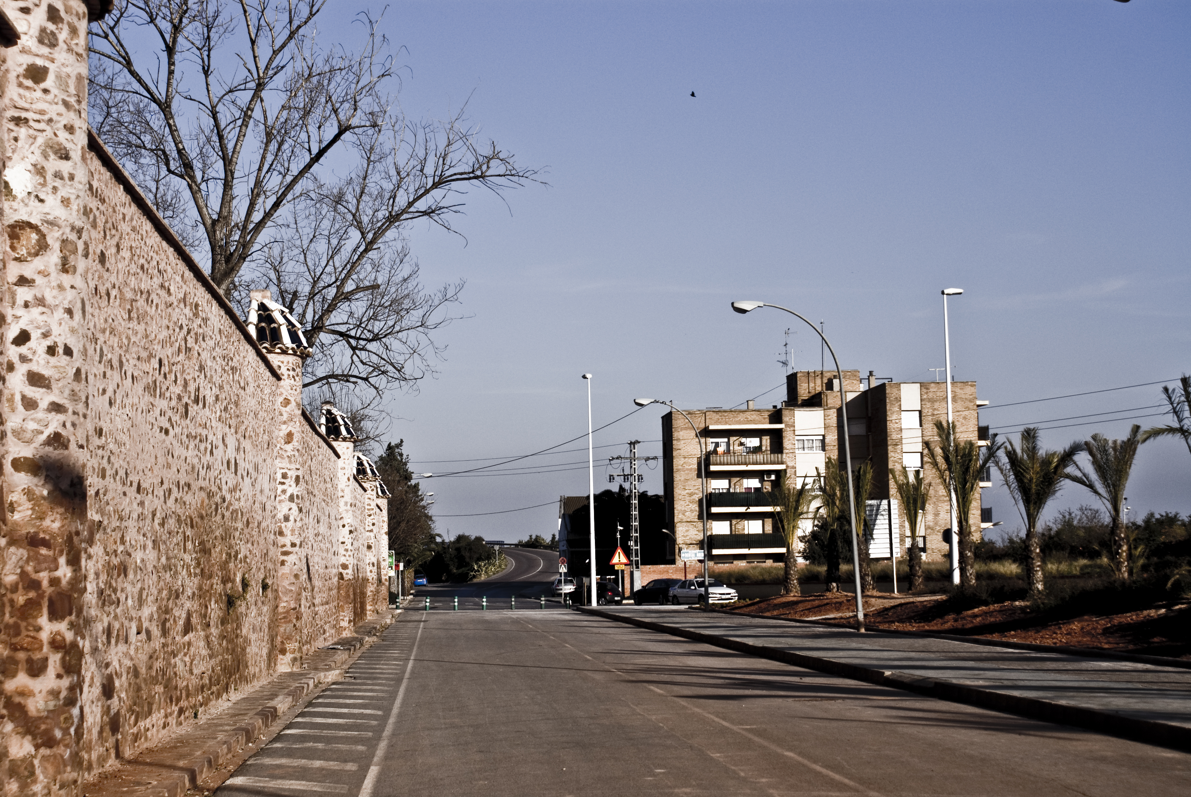 Muralla del antic Jardí Botànic